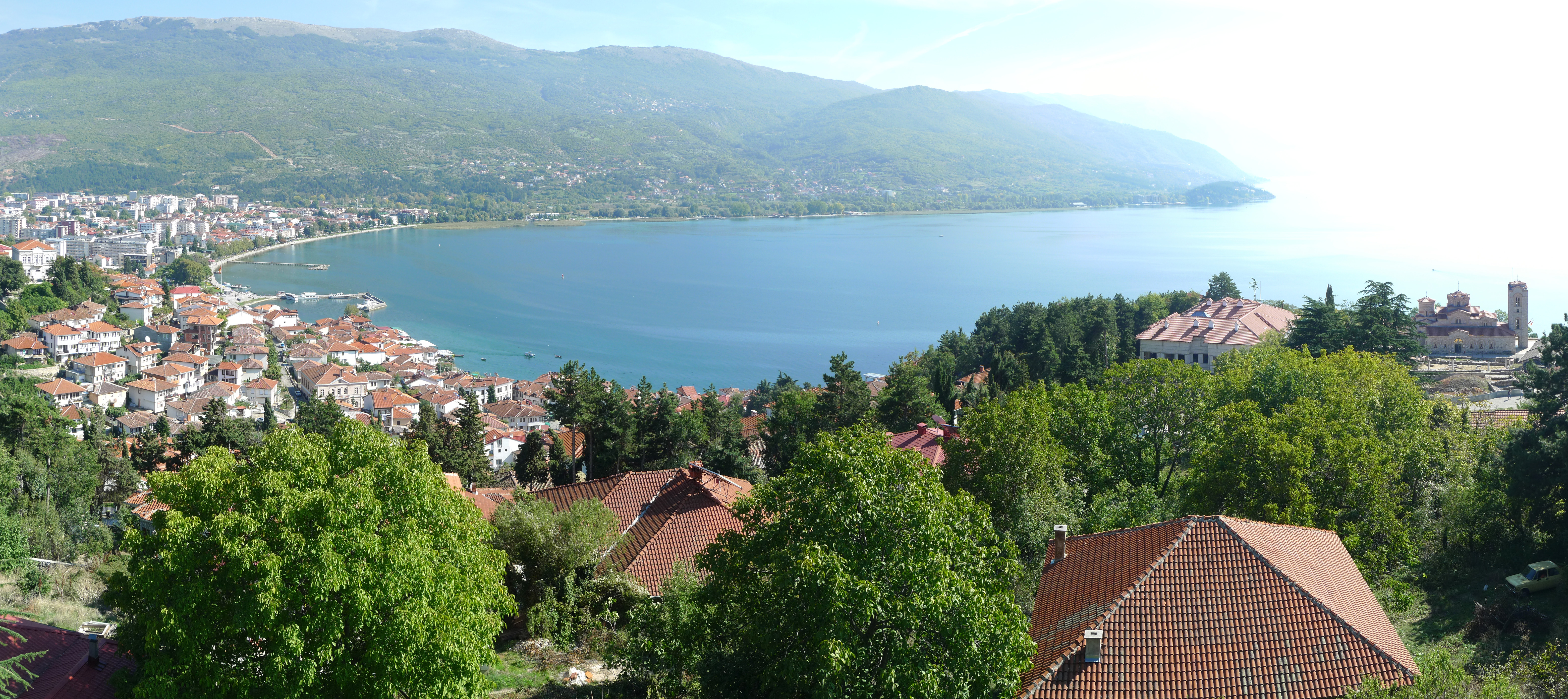 Ohrid lake